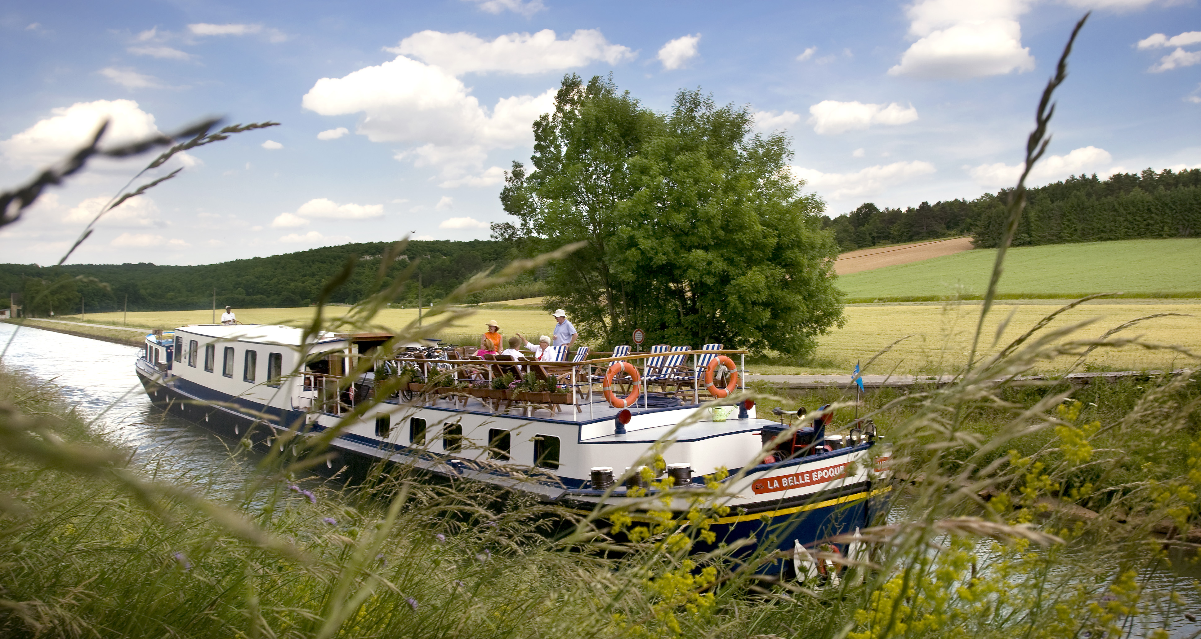 La Belle Epoque Hotel Barge Cruising on the Canal du Midi